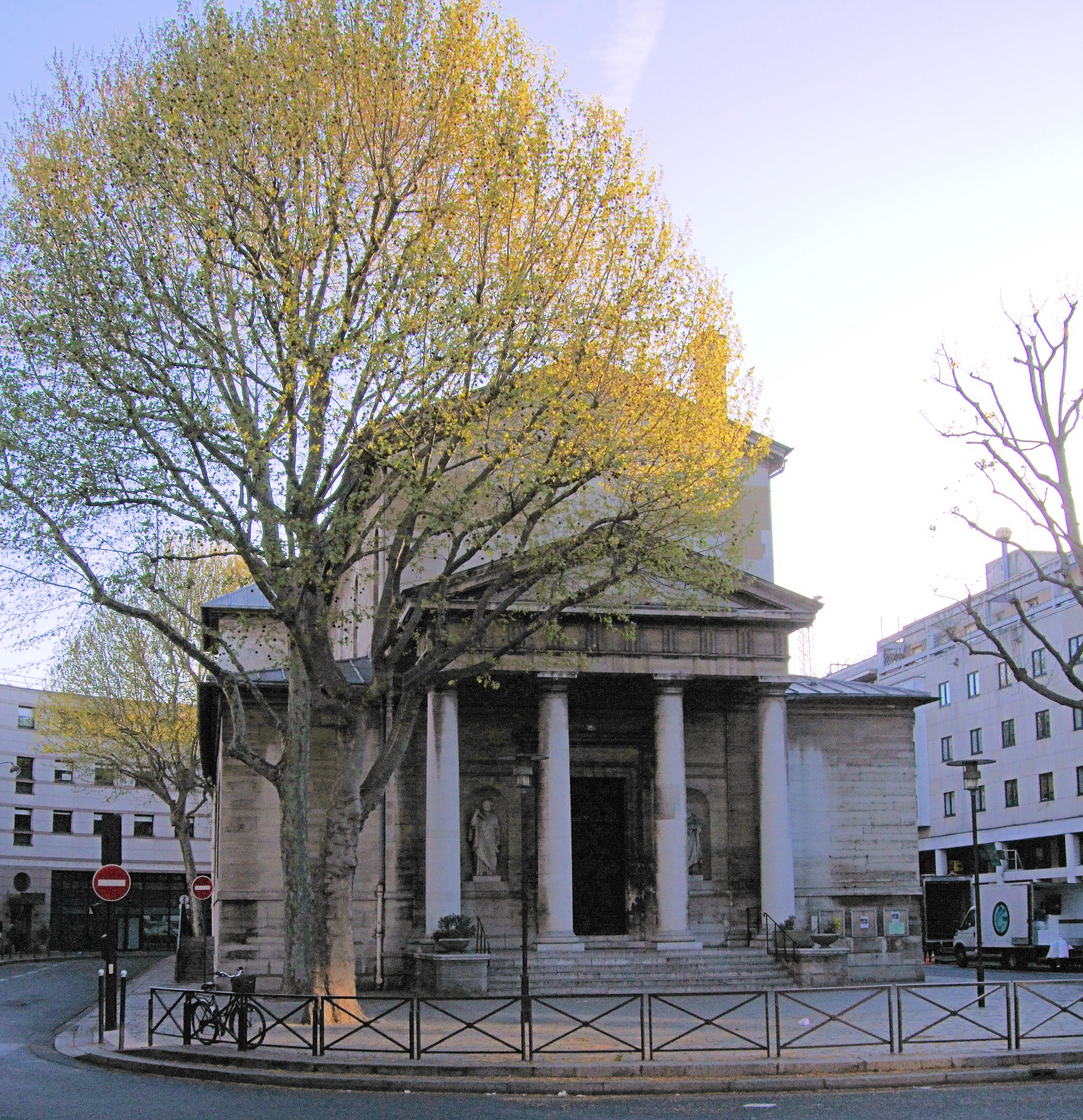 The Church of Our Lady of the Nativity-Bercy is a Catholic church located in the 12th arrondissement of Paris , in the district of Bercy , the place Lachambeaudie and isolated in the middle of traffic lanes .